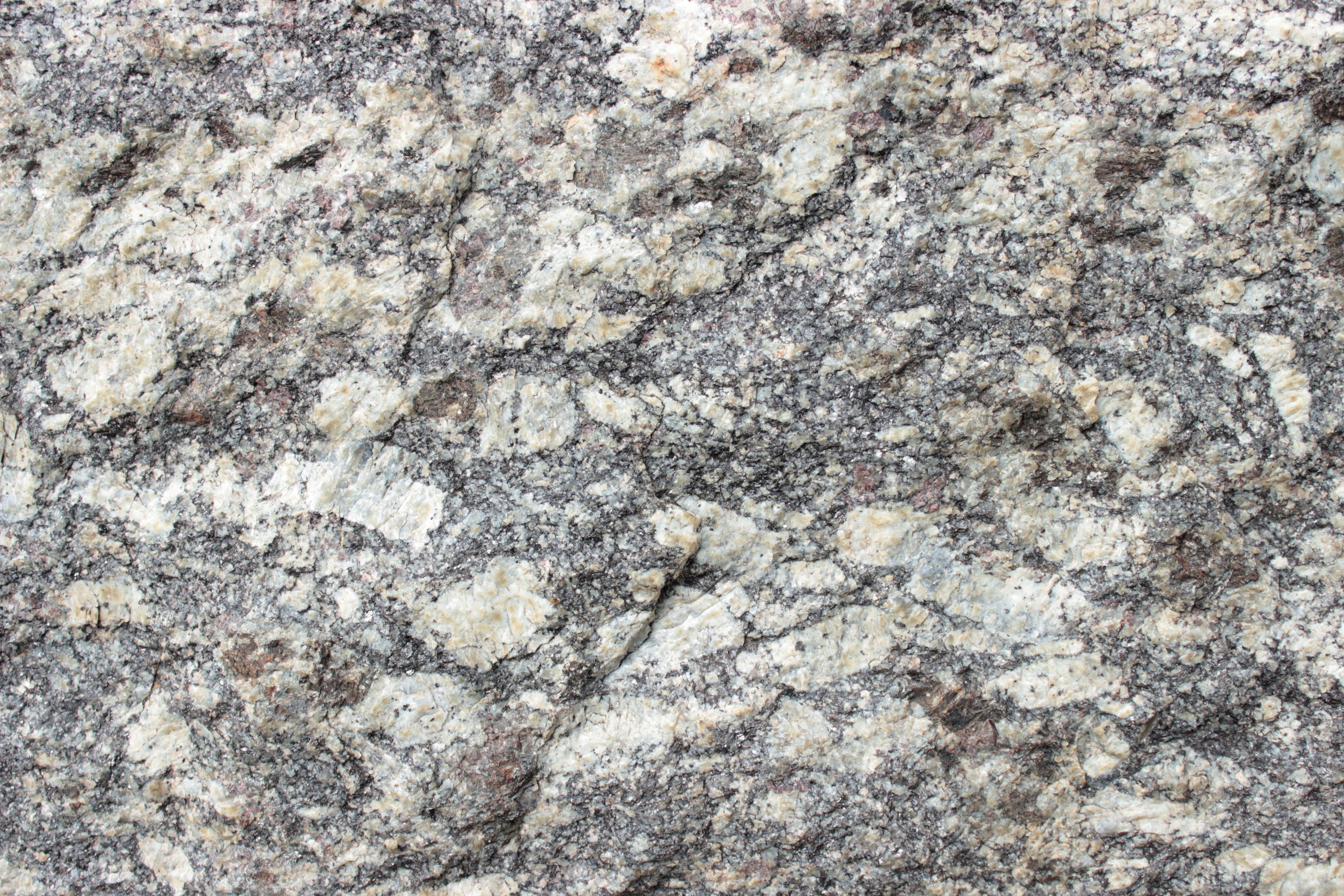 Ansignan garnet-bearing charnockite, dated of Variscan orogenesis (305 Ma) (Pyrénées orientales, France).